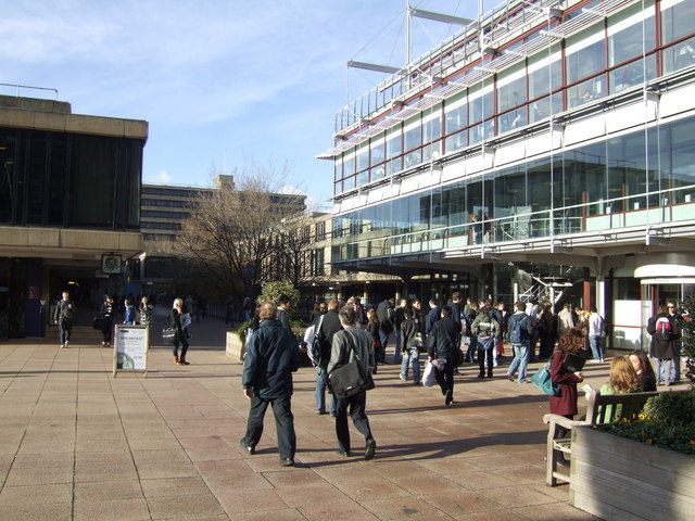 University of Bath - main campus A clever design feature is the fact that this pedestrian precinct is suspended above the service roads underneath. To the right is the library, left is the Union, and the tower behind is one of the twin residential blocks that make the building distinctively 1960's in design.